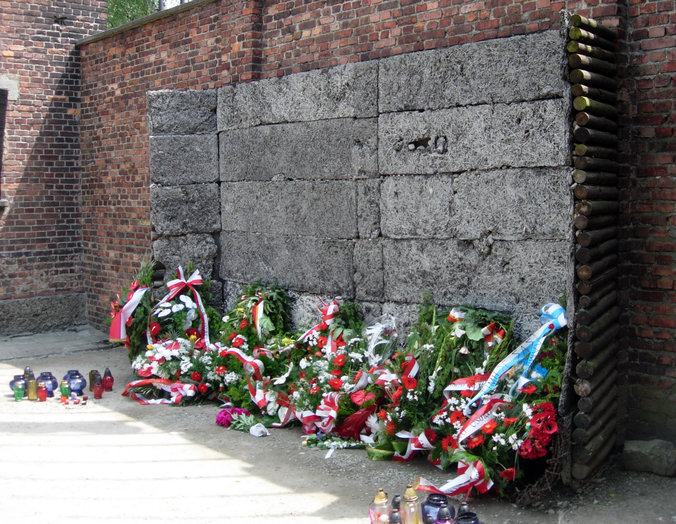 Execution wall at Auschwitz